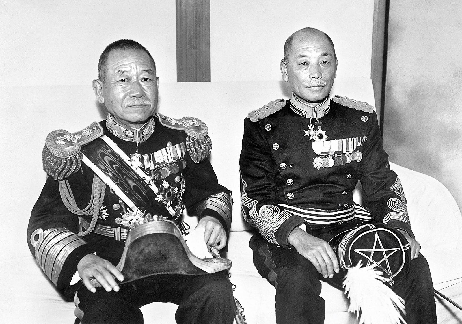 Japanese Prime Minister Keisuke Okada (岡田啓介, 1868–1952, in office 1934–36, left) and his brother-in-law Denzō Matsuo (松尾伝蔵), who posed as Okada and killed by the rebel troops in the February 26 Incident (二・二六事件).